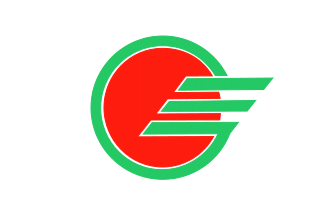 Flag of Mishima Kagoshima